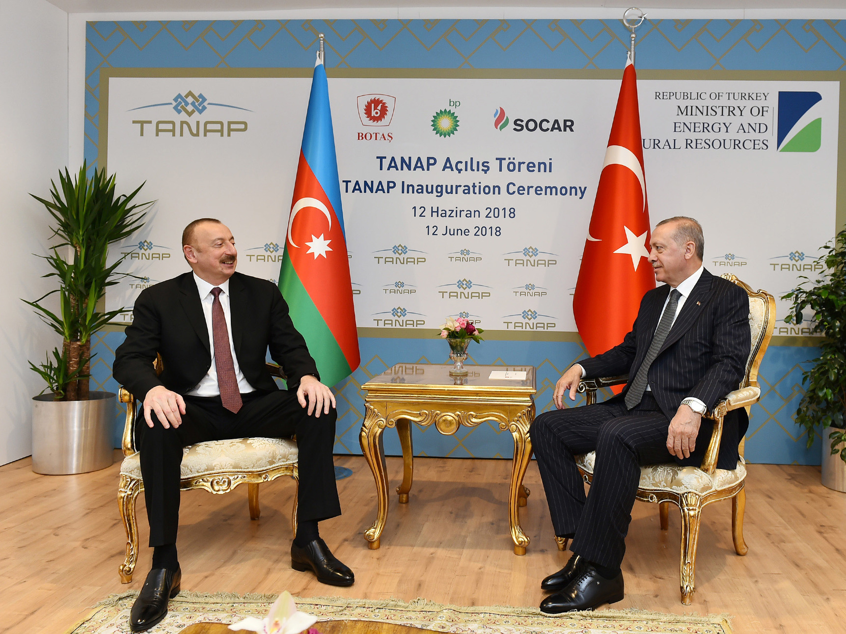 Ilham Aliyev met with Turkish President Recep Tayyip Erdogan in Eskisehir